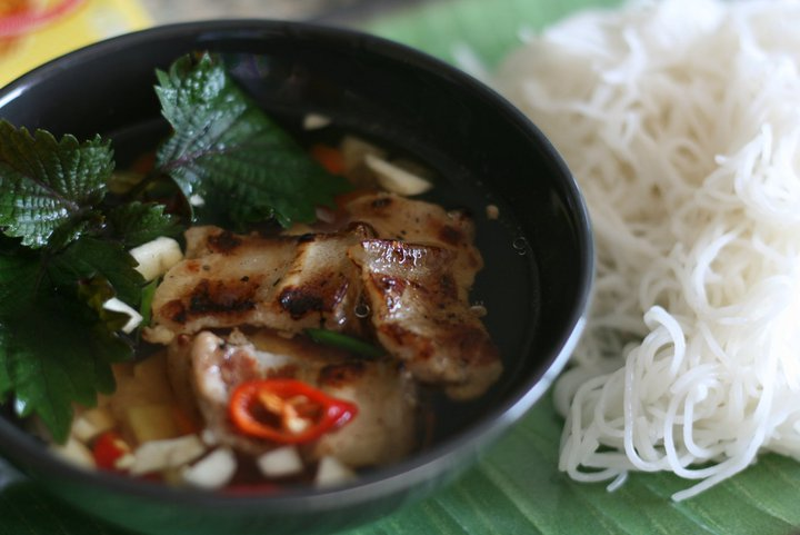 Bún chả